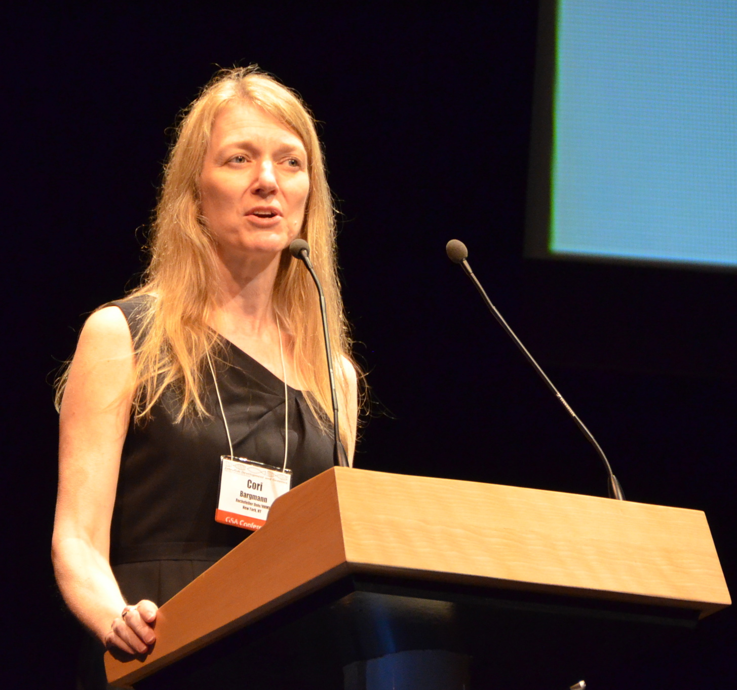 Cori Bargmann delivering a keynote address behind a podium